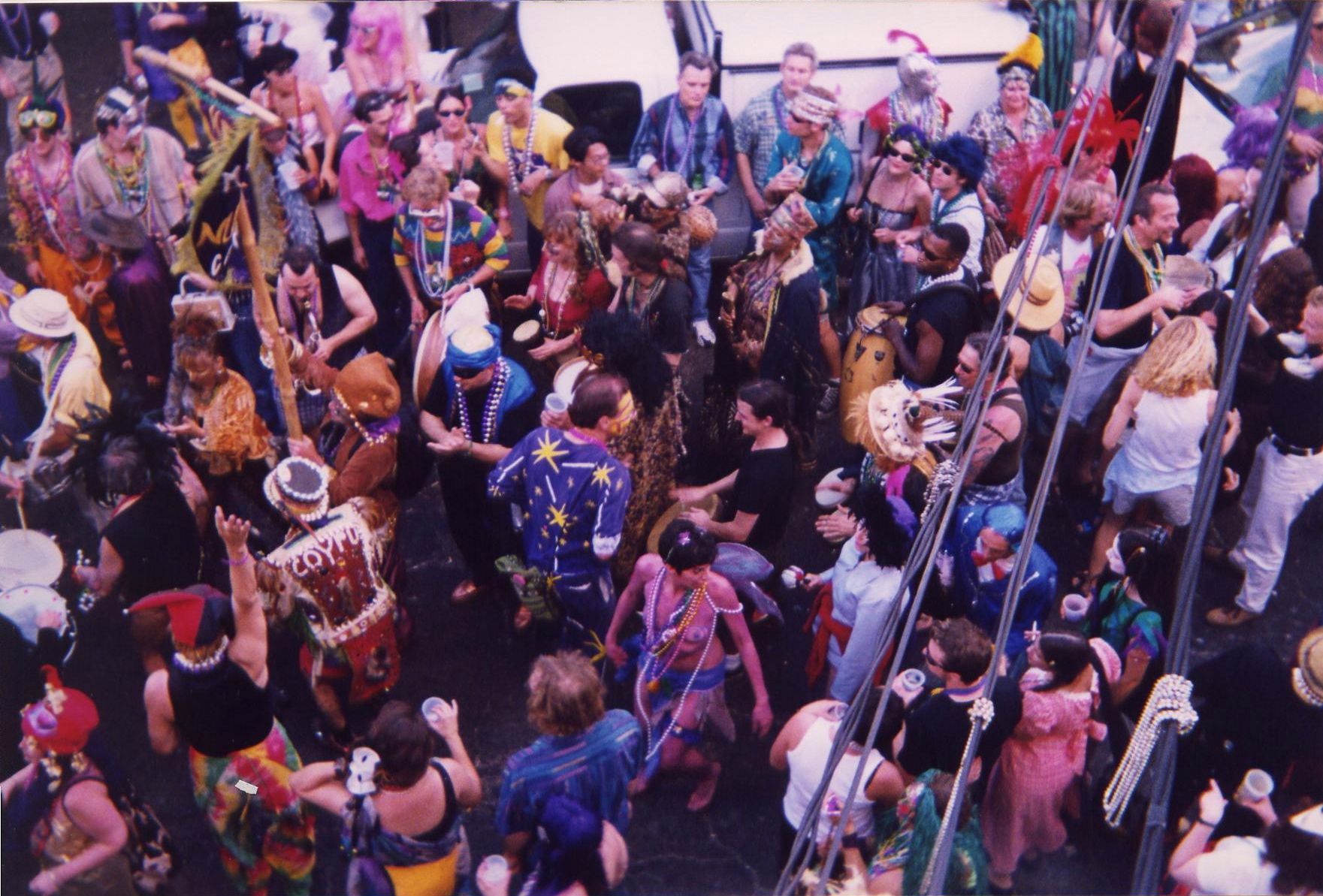 New Orleans Mardi Gras revelers on Frenchmen Street as seen from balcony.